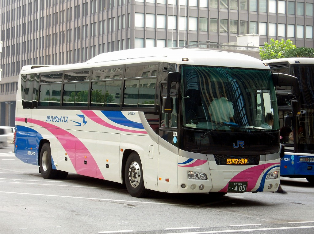 West JR bus Highwaybus "Youth Dream Kanazawa"(Kanazawa-Tokyo,Ueno)